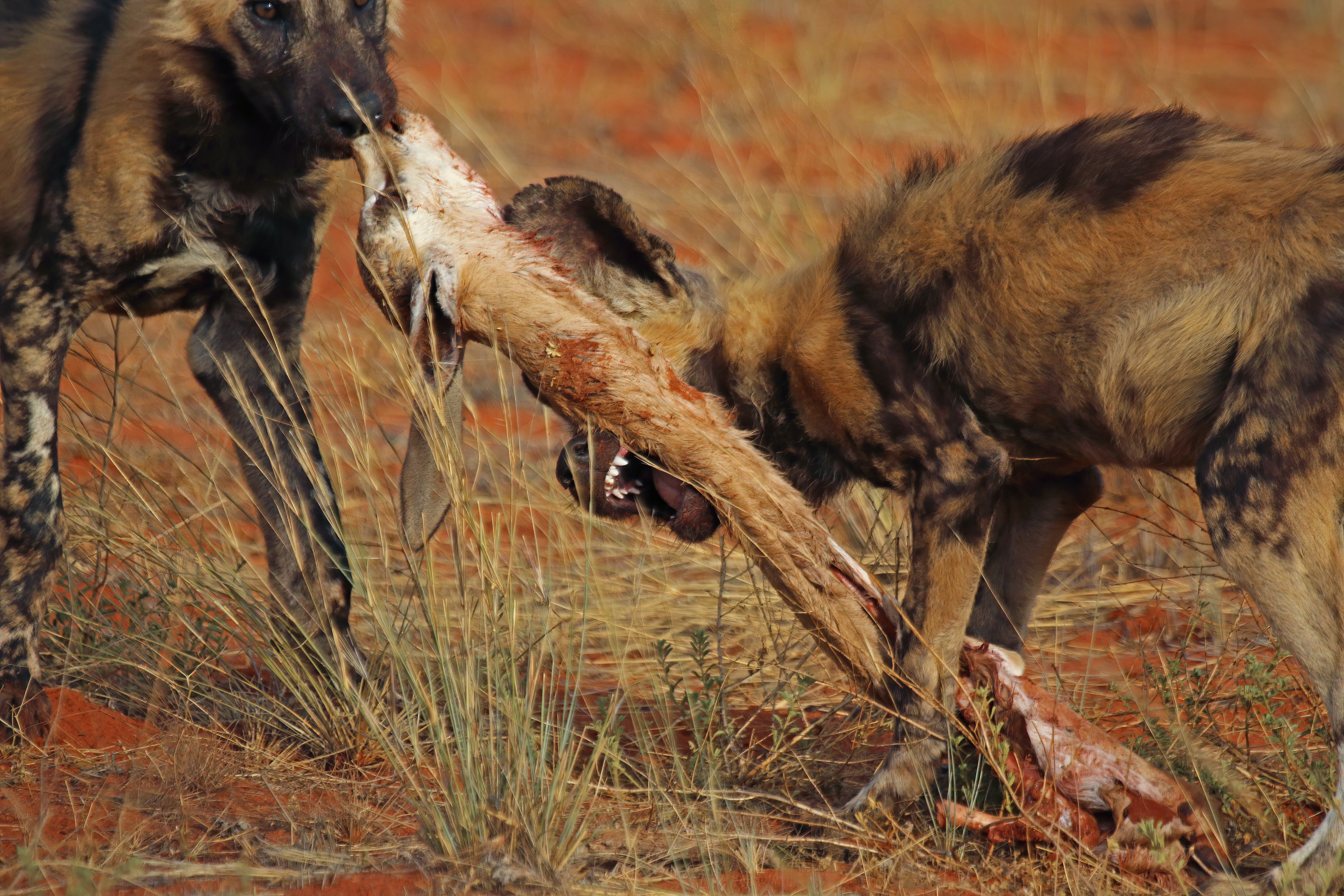 African wild dogs (Lycaon pictus pictus), Tswalu Kalahari Reserve, South Africa